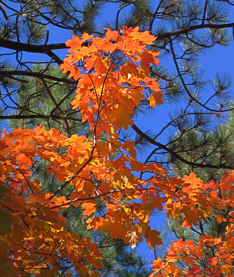 Fall maple, Fourth of July Canyon NM. Photo from Fall 2007.